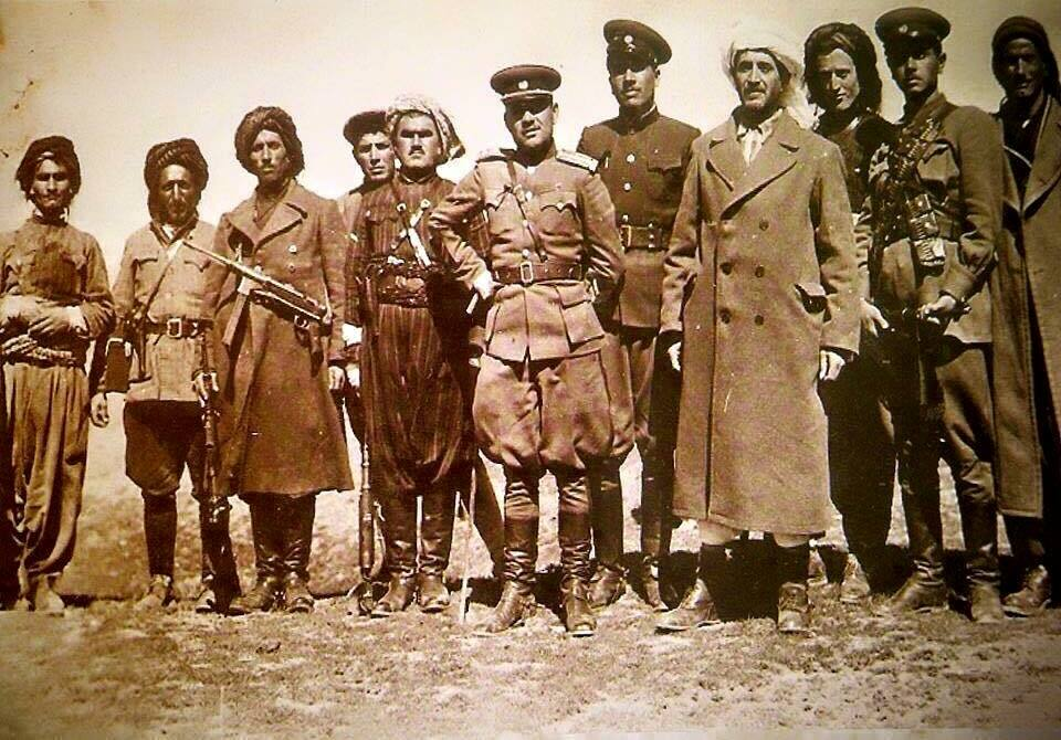 Qazi Muhammed with military leaders